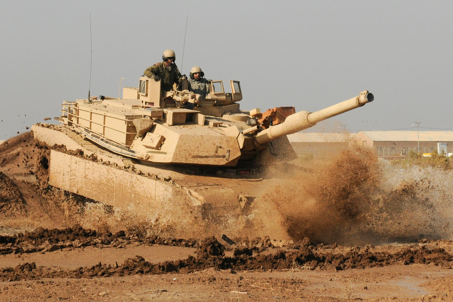 An Iraqi Army tanker with the 9th Armored Division drives an M1A1 Abrams tank under the instruction of Soldiers with Company C, 1st Battalion, 18th Infantry Regiment, 2nd Advise and Assist Brigade, 1st Infantry Division, United States Division-Center Jan. 16 at Camp Taji, Iraq. The IA tankers are preparing for a 45-day New Equipment Operator’s Course this spring at the Besmaya Combat Training Center, Iraq.